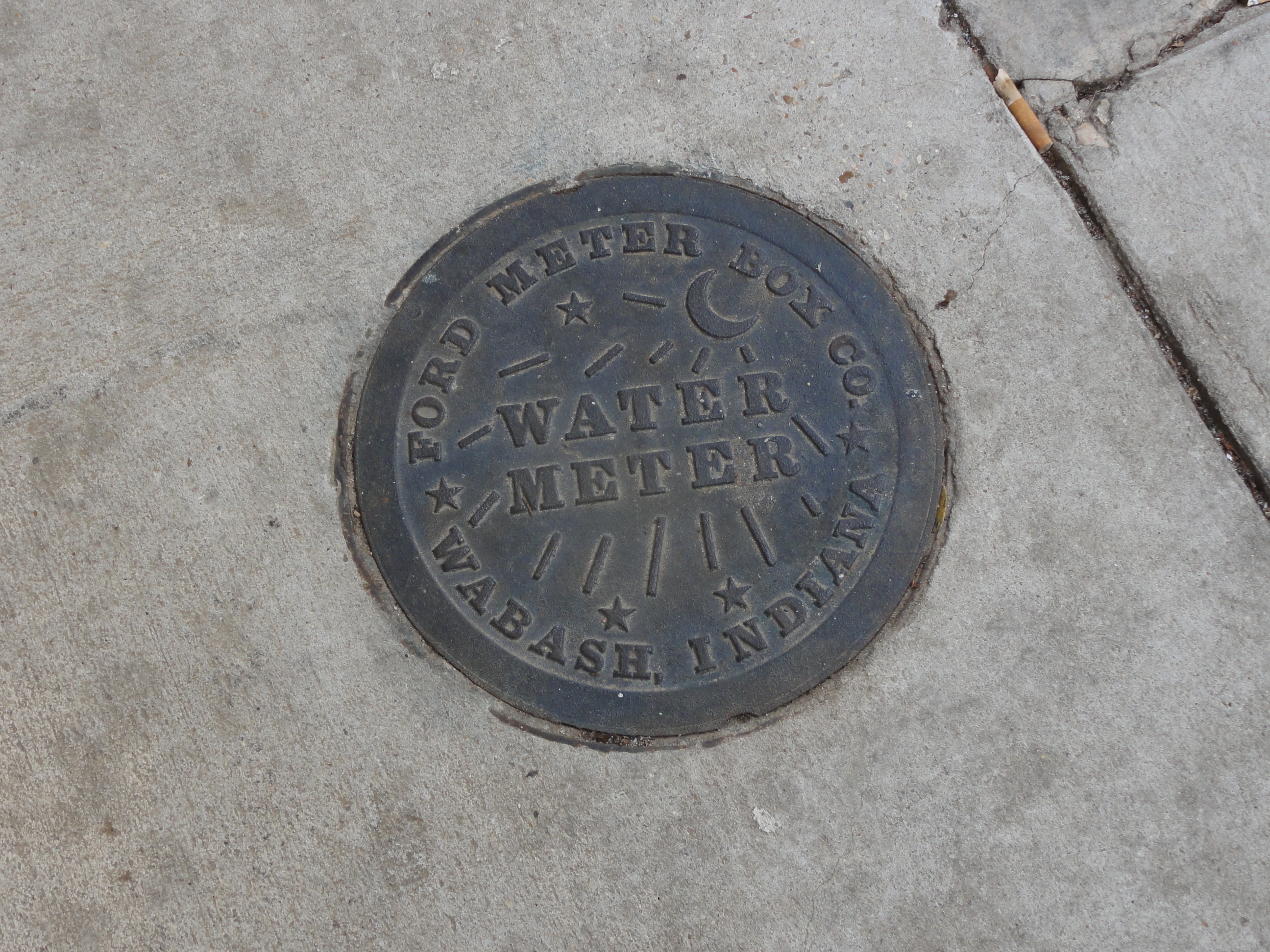 Ford Meter Box Co., Wabash, Indiana, Water Meter metal cover from Baton Rouge, Louisiana sidewalk